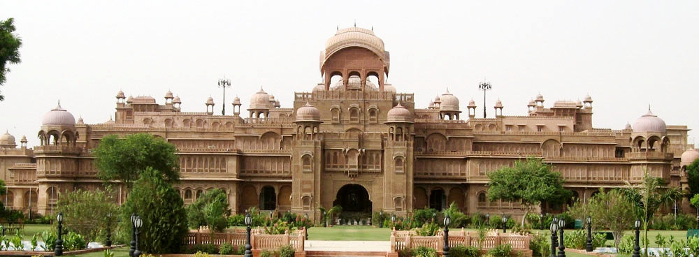 Laxmi Niwas Palace, Bikaner, Rajasthan, INDIA.